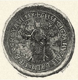 Géza II of Hungary